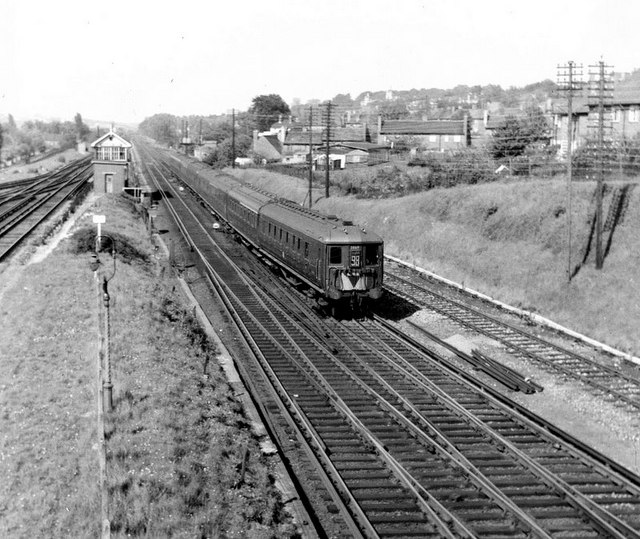 Coulsdon North railway station approach.